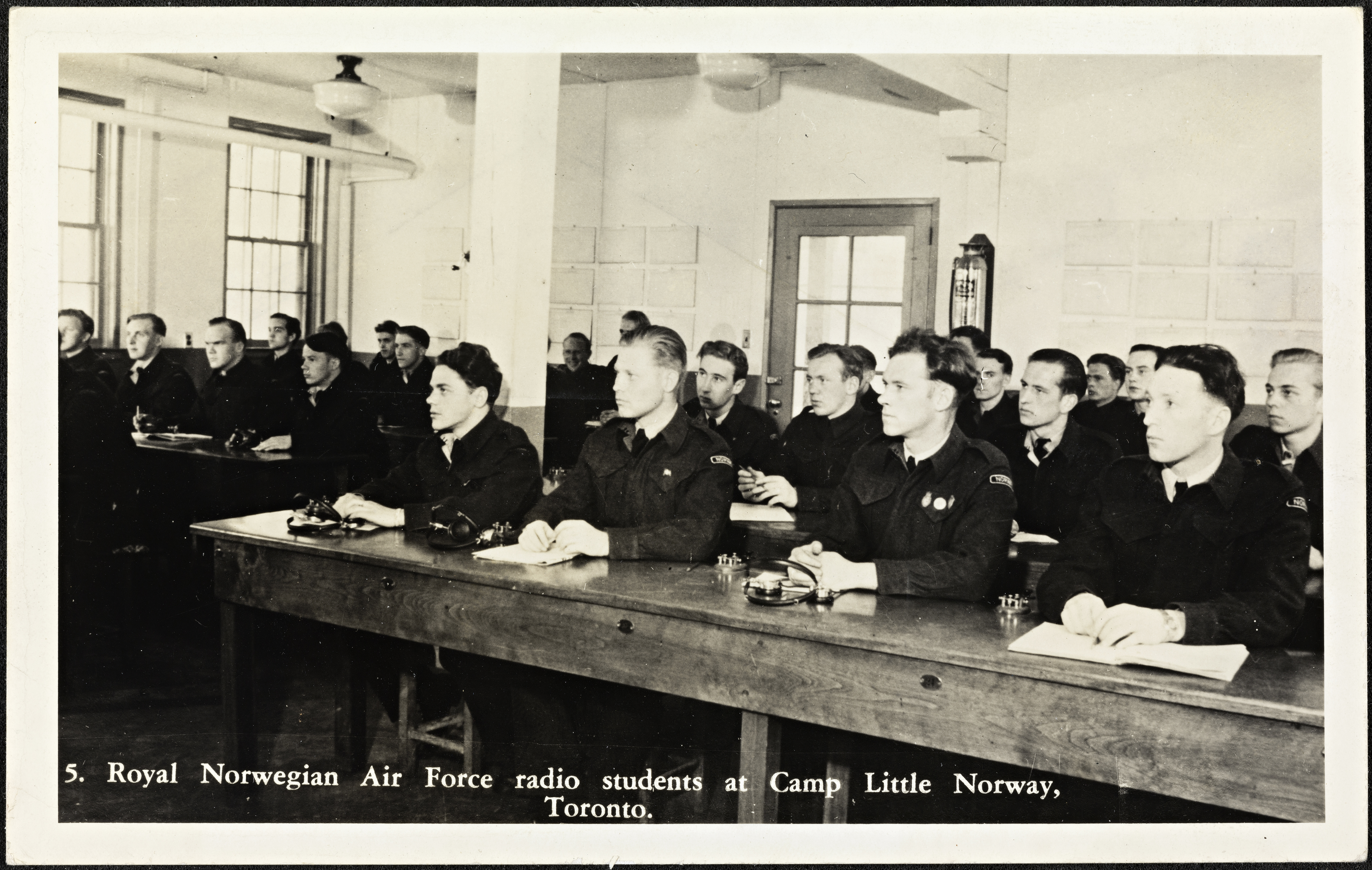 Dato / Date: 1941 Sted / Place: Canada, Toronto, Little Norway Fotograf / Photographer: ukjent / unknown Utgiver / Publisher: ukjent / unknown Digital kopi av original / Digital copy of original: s/h postkort, sølvgelatin Eier / Owner Institution: Nasjonalbiblioteket / National Library of Norway Lenke / Link: Bildesignatur / Image Number: blds_07364